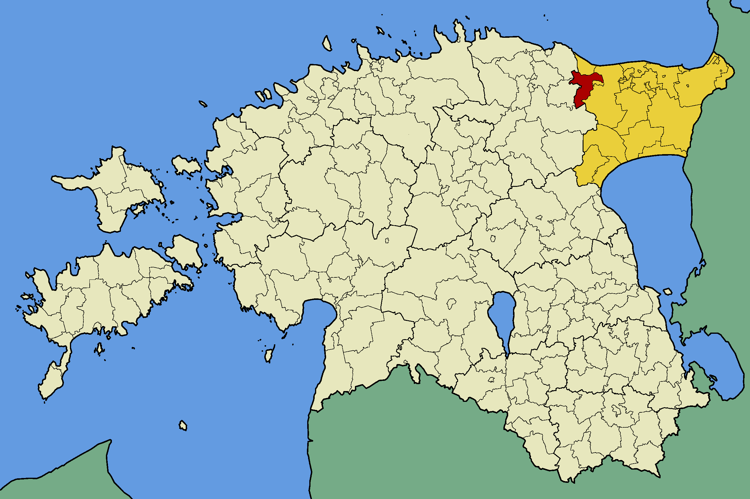 Map of Estonia with borders of municipalities (parishes). Ida-Viru county and Sonda municipality emphasized.